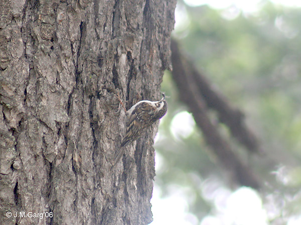 Hodgson's Treecreeper Certhia hodgsoni in Kullu District of Himachal Pradesh, India.